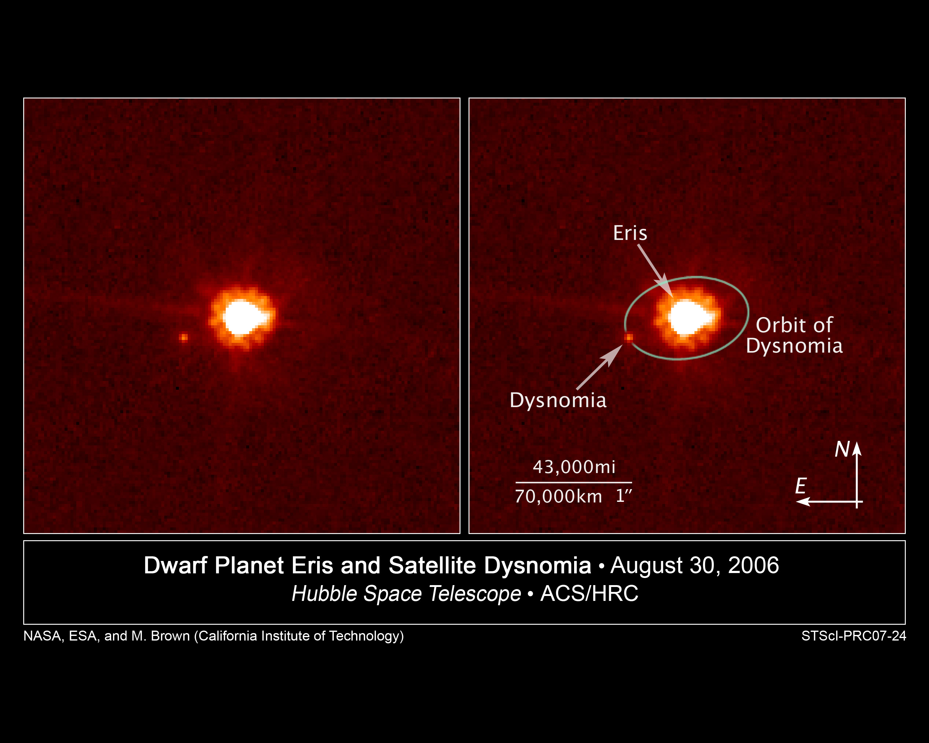 Eris and Dysnomia